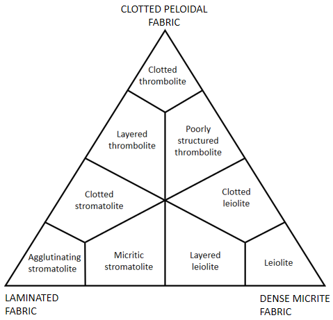 Plot about classification of microbialite